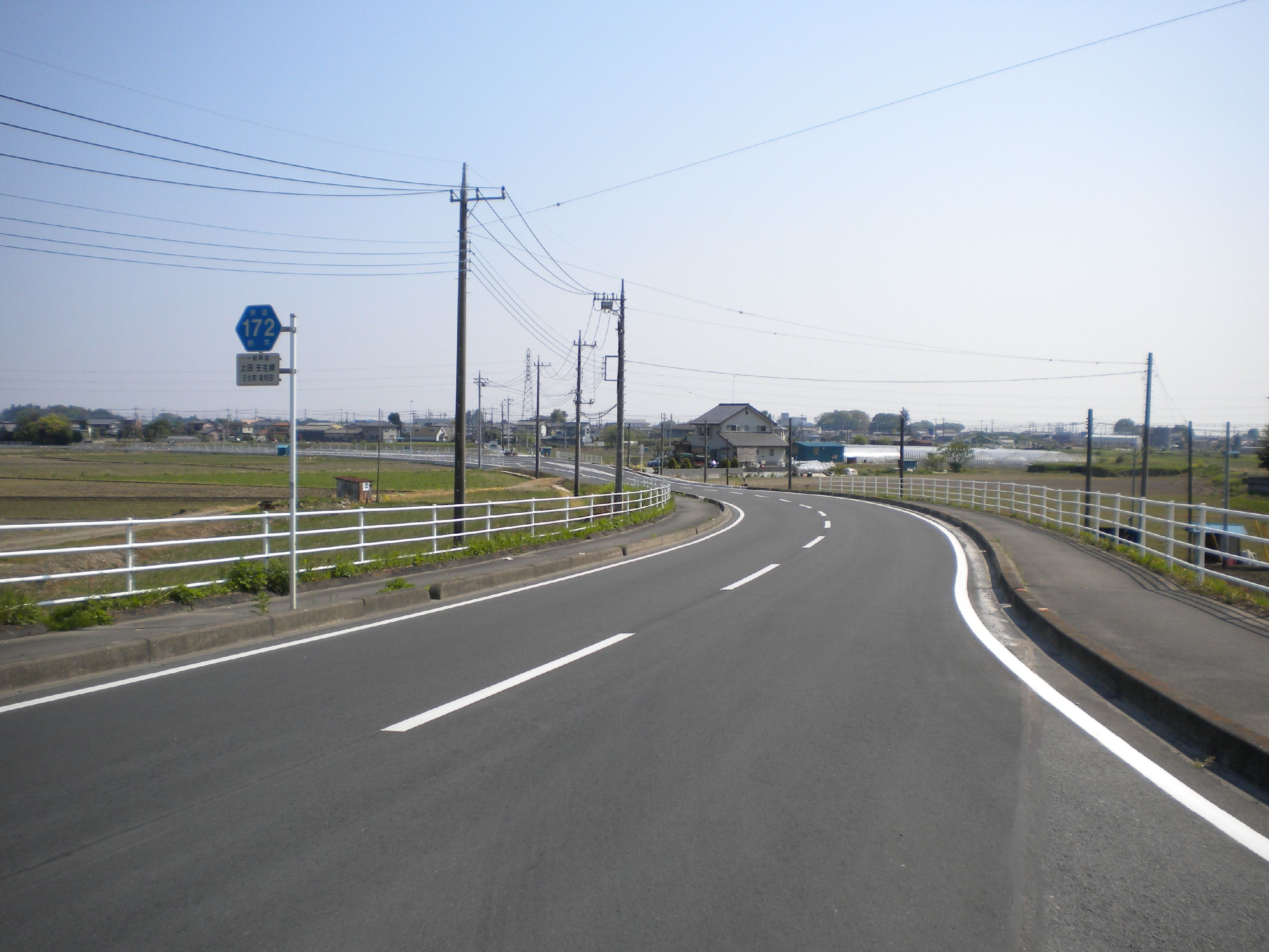 Tochigi prefectural road No.172 on Mibu town